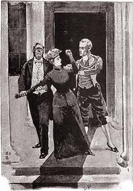 Illustration of the Sherlock Holmes short story The Noble Bachelor, which appeared in The Strand Magazine in April, 1892. Original caption was "SHE WAS EJECTED BY THE BUTLER AND THE FOOTMAN."